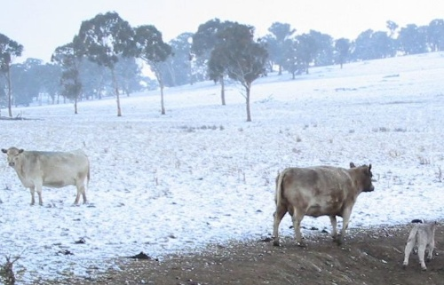 Murray Grey cows and a calf in snow, Walcha, NSW